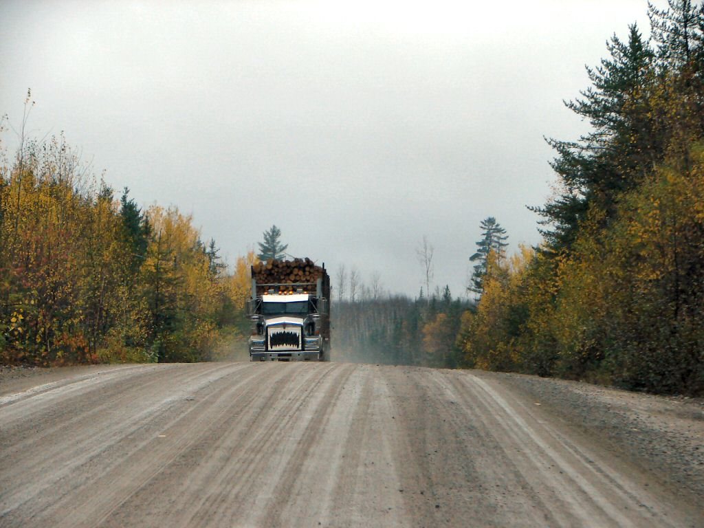 Sultan Road, Sudbury District, Ontario, Canada